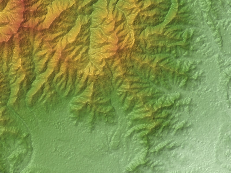 Around Mount Ōyama in Kanagawa Prefecture, Honshu, Japan.